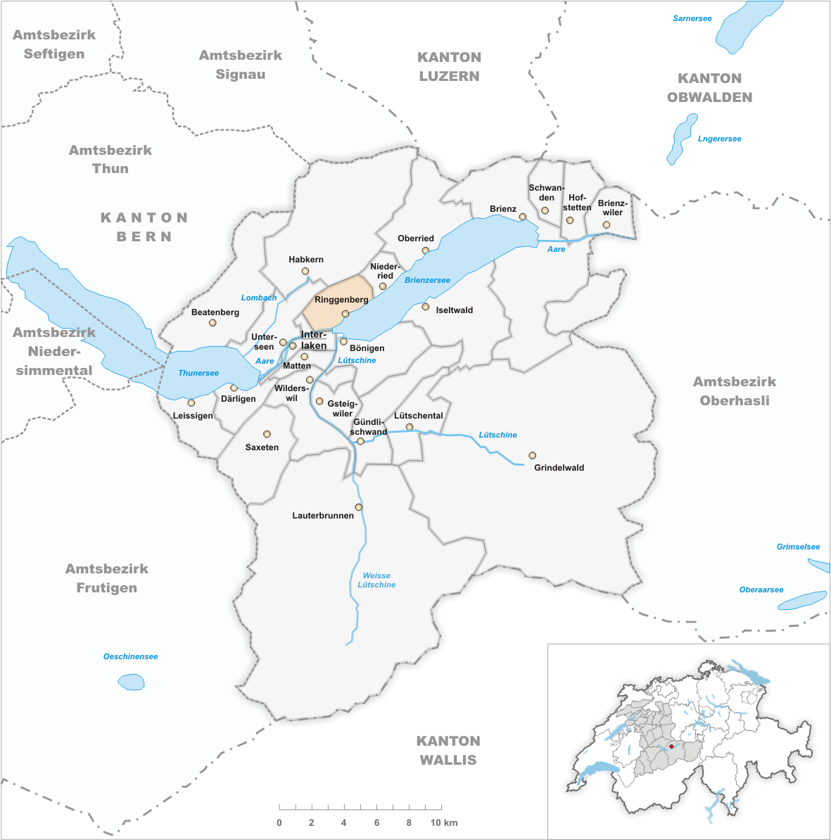 Municipality Ringgenberg